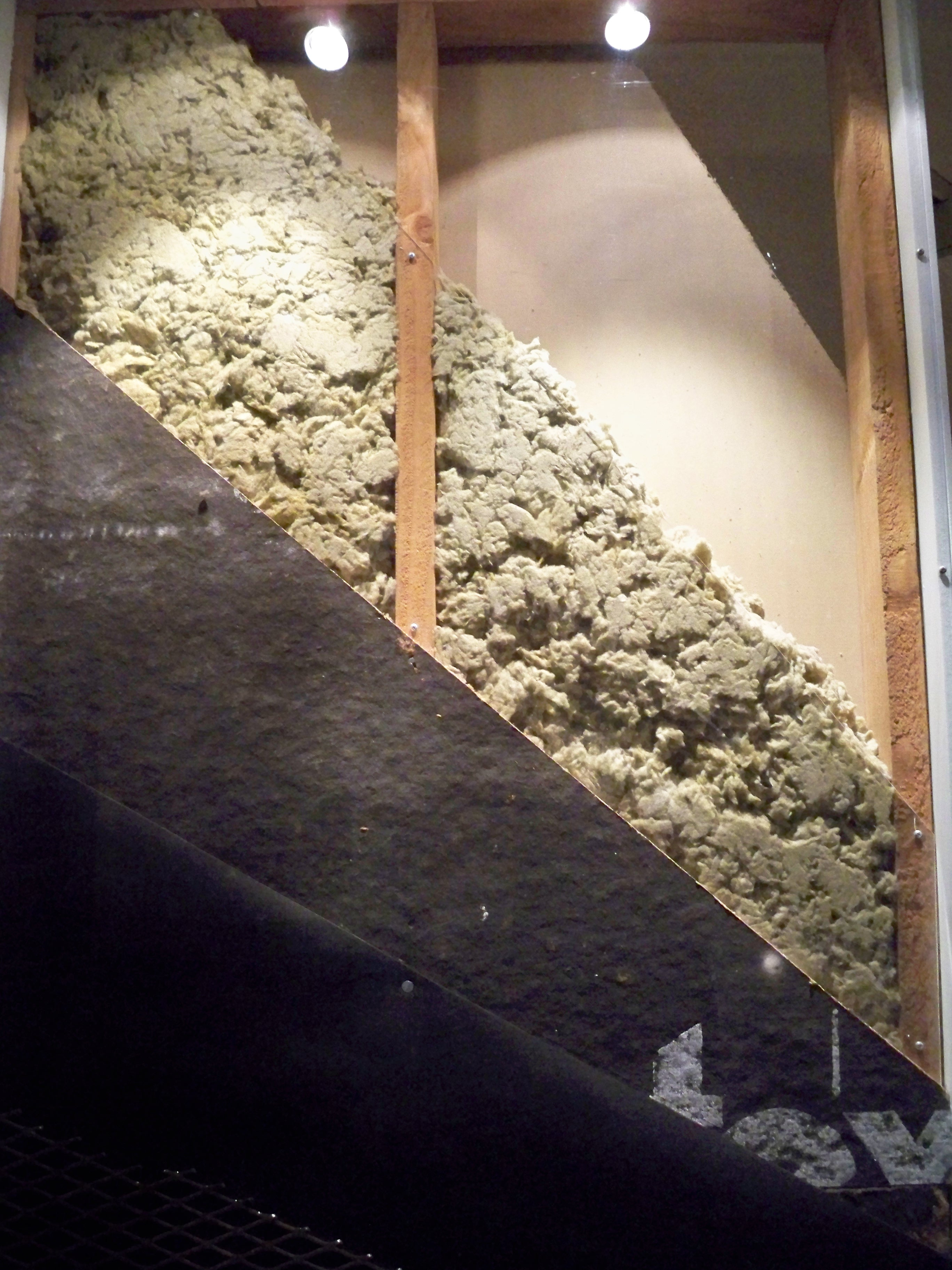 A display of home insulation at the Smithsonian National Museum of American History.